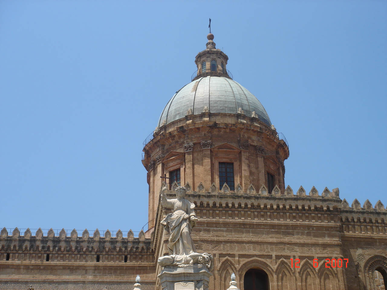 Cupola of Palermo Cathedral and St Rosalia statue